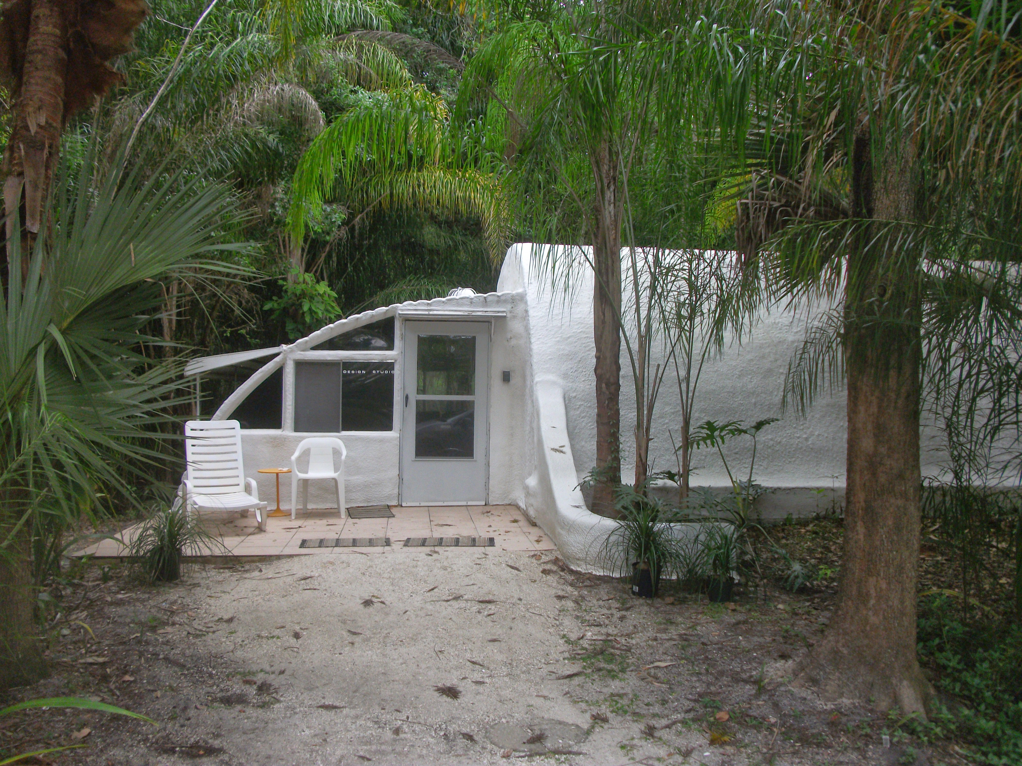 The design studio at The Venus Project in Venus, Florida.